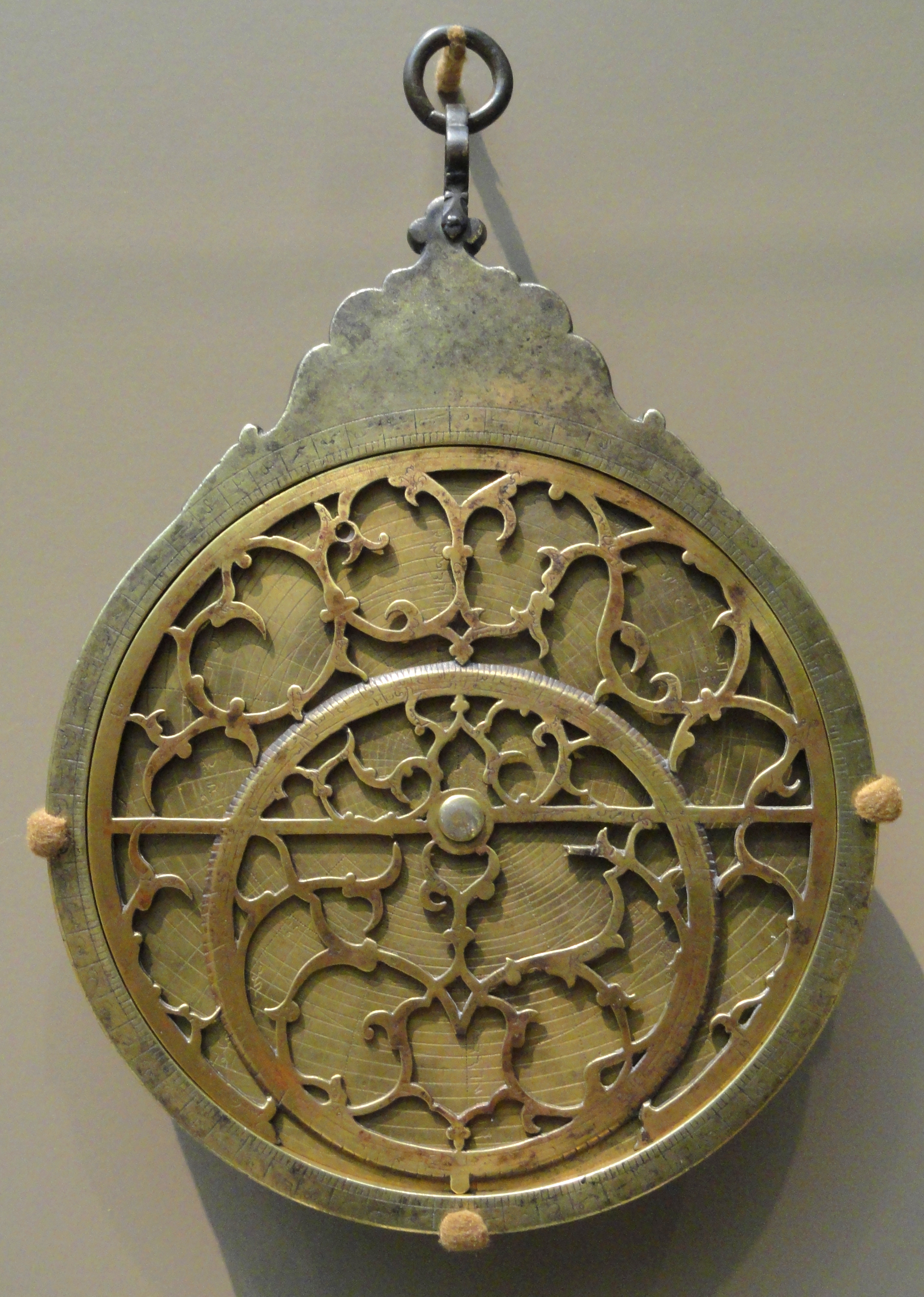 Exhibit in the Art Institute of Chicago, Chicago, Illinois, USA. This artwork is in the public domain because the artist died more than 70 years ago. Email correspondence with the Art Institute of Chicago (by User:MartinPoulter) confirms that this item was on loan from the Adler Planetarium and is not part of the Art Institute collection.